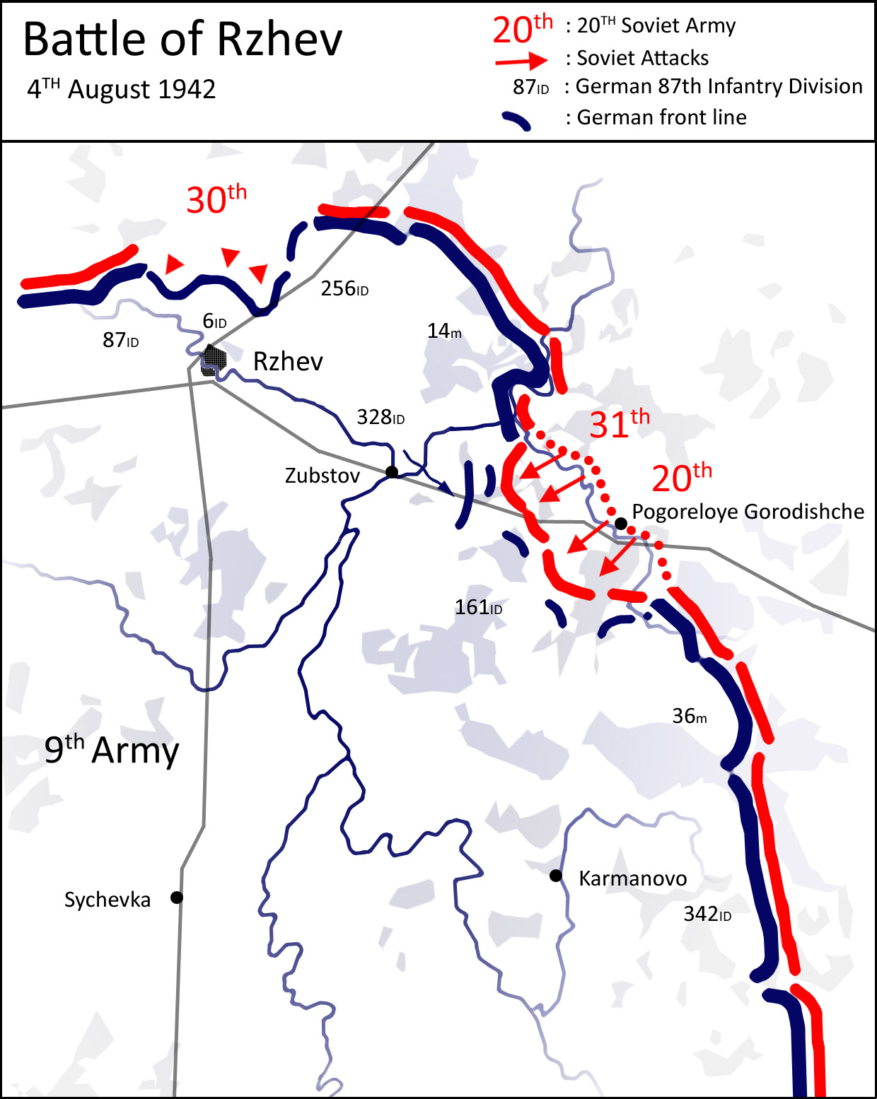 Situation Map, depicting the attack of the Soviet Western Front on 4 August 1942 against forces of Army Group Center